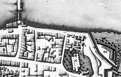 Maastricht, the Netherlands. Detail of a map showing a part of the city in 1749. The map by French military engineer Jean-Baptiste Larcher d'Aubencourt was used to built the Maquette of Maastricht (1752), now in the Musée de Beaux Arts in Lille, France. Here a section of the city along the right bank of the river Meuse in Wyck. Top left: Saint Servatius Bridge. Bottom right: Saint Martin's parish church.